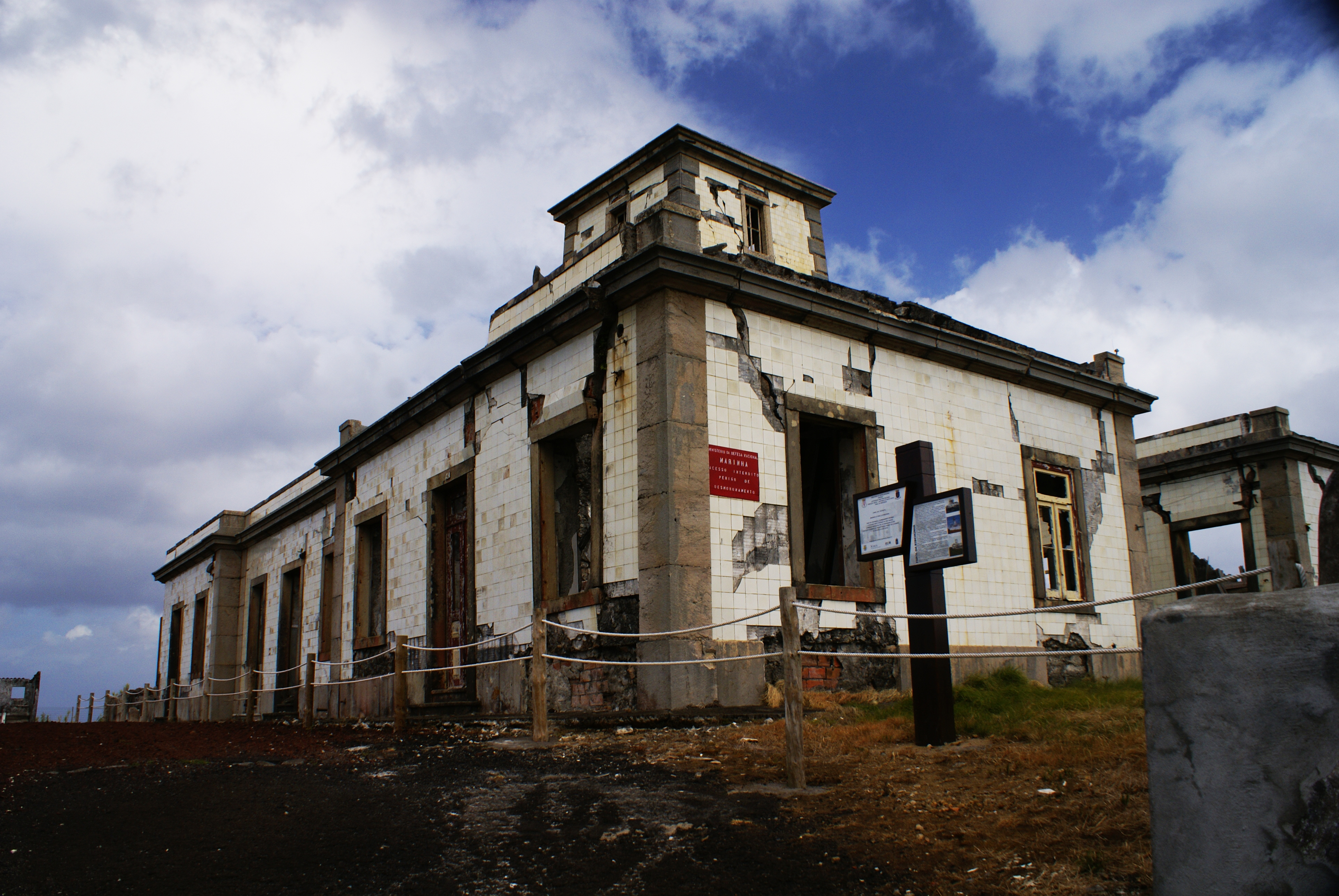 Farol da Ribeirinha, Ribeirinha, destruído pelo terramoto de 1998, concelho da Horta, ilha do Faial, Açores, Portugal